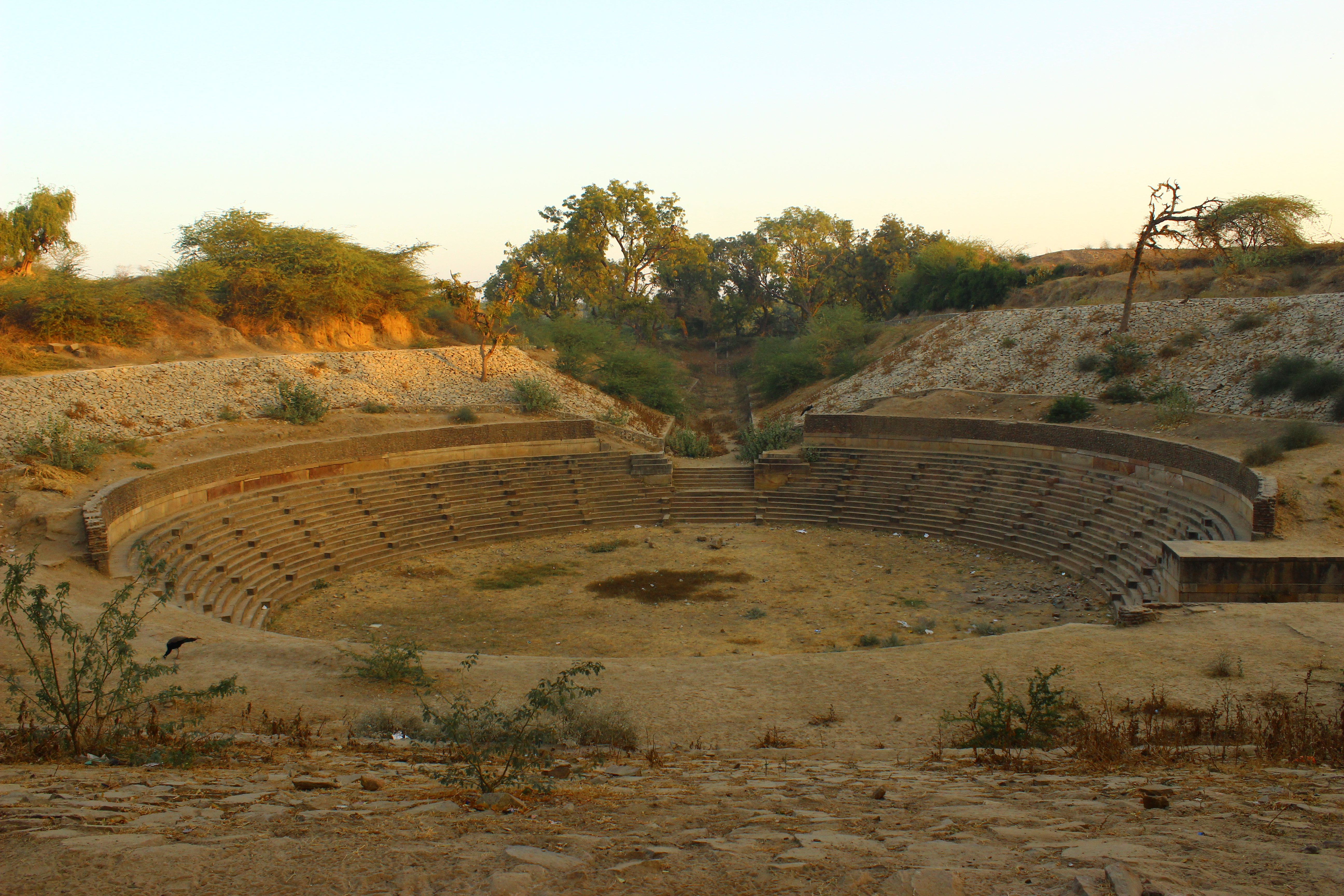 Sahasralinga Tank or Sahasralinga Talav is a medieval artificial water tank in Patan, Gujarat, India. It was commissioned during Chaulukya (Solanki) rule, but now it is empty and in a ruined state. It is a Monument of National Importance protected by Archaeological Survey of India ગુજરાતી: સહસ્ત્રલિંગ તળાવ પાટણ, ગુજરાતમાં આવેલું એક મધ્યયુગીન કૃત્રિમ તળાવ છે. તેનું બાંધકામ સોલંકી વંશના શાસન દરમિયાન કરવામાં આવ્યું હતું. પરંતુ હાલમાં તે ખાલી અને ખંડિત અવસ્થામાં છે. તે હવે ભારતના પુરાતત્વ ખાતા દ્વારા મહત્વના રાષ્ટ્રીય સ્મારક (N-GJ-161) તરીકે જાહેર કરાયેલ છે.